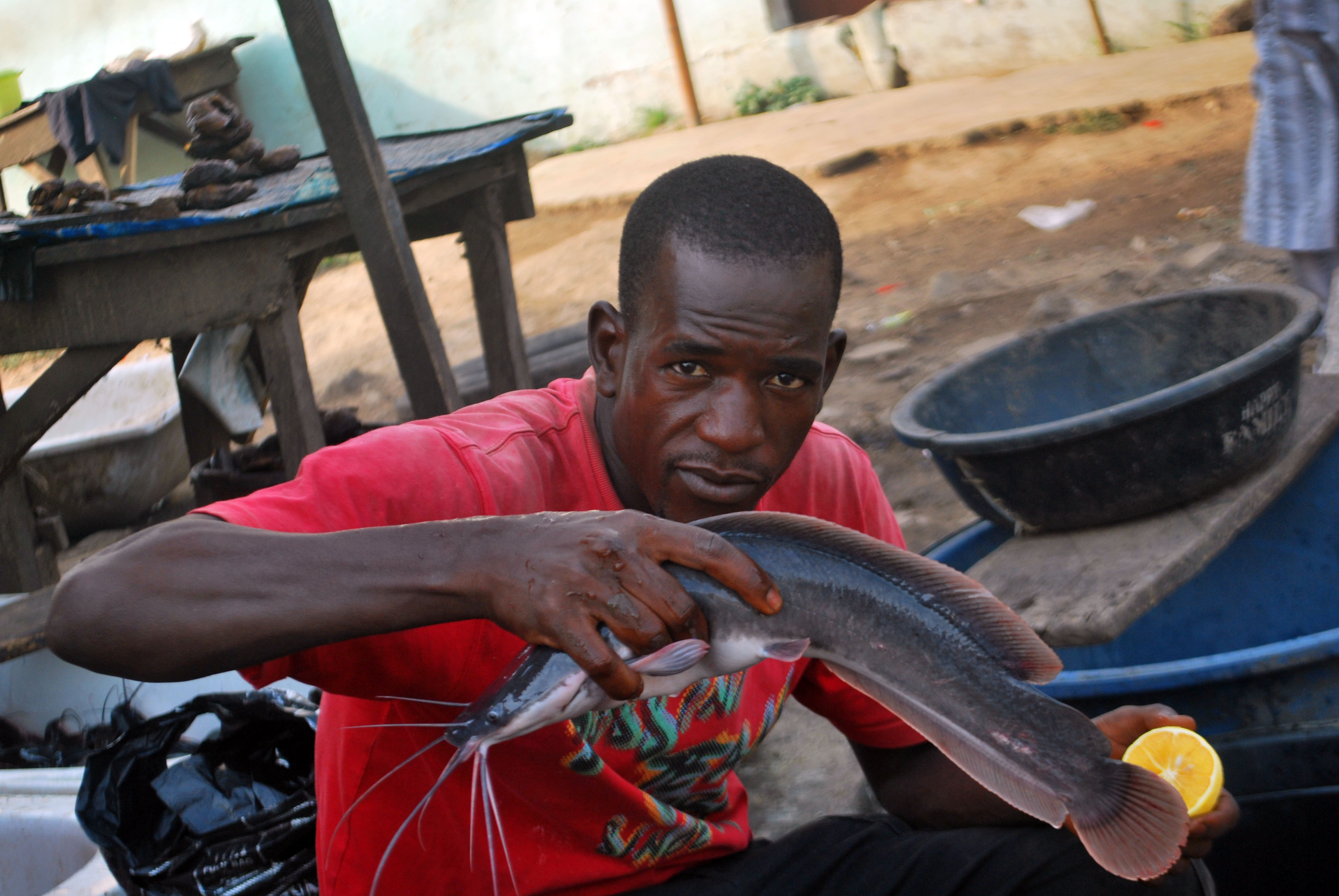 This is an image of "African people at work" from Nigeria